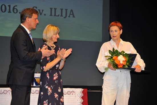 A reward to Dina Merhav by the city of Vinkovci: A gold medal and a certificate of merit for her achievements in installing outdoor sculptures all over the world and for her donation to the town of Vinkovci